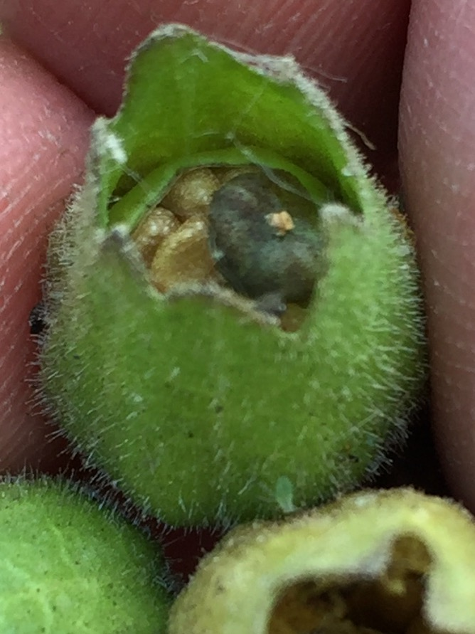 View of interior of ripe fruiting calyx of Physochlaina orientalis (M. Bieb.) G.Don, showing pyxidial capsule with detached operculum revealing yellowish-buff, pitted, reniform seeds.